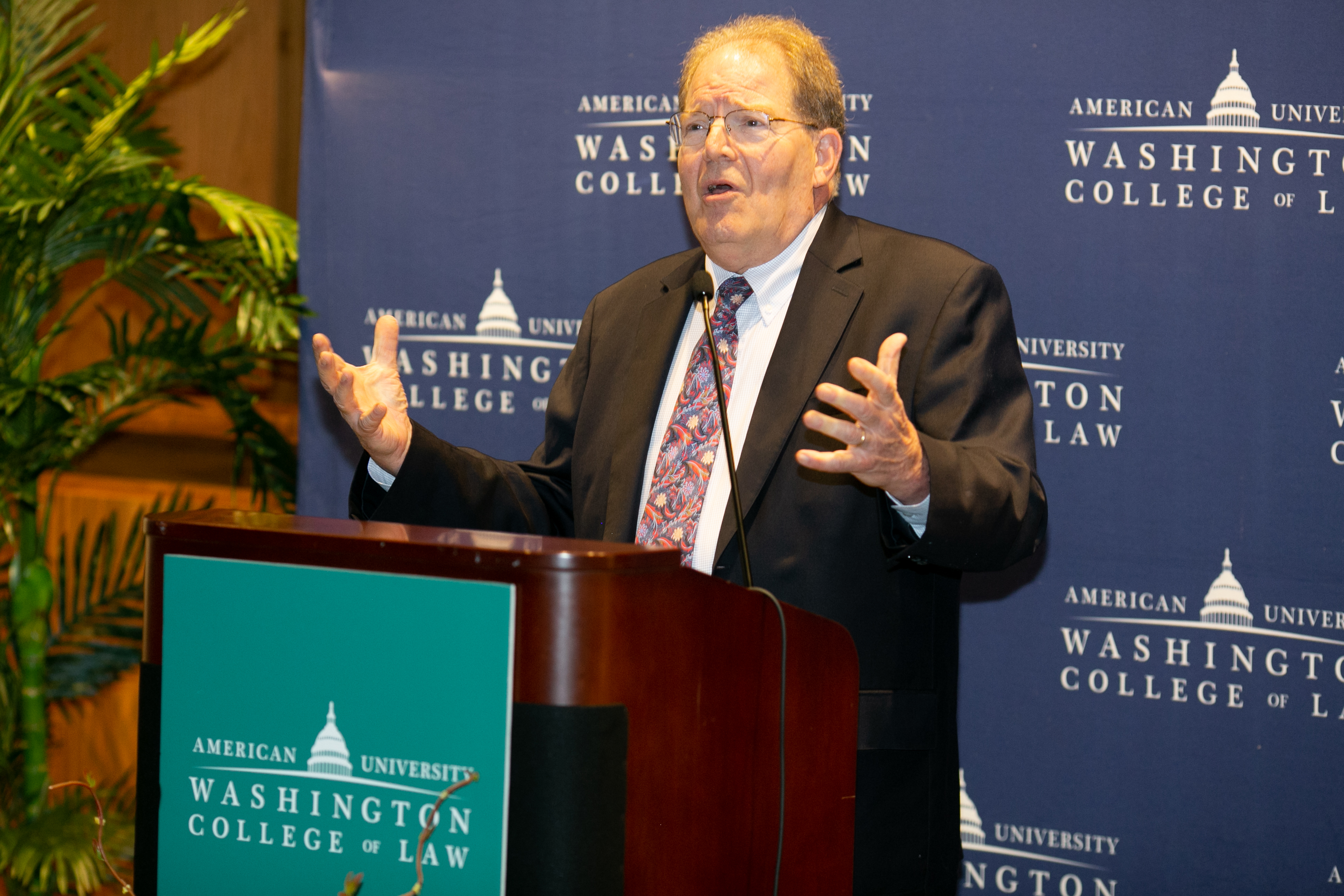 7th Peter Jaszi Lecture in 2018 - American University, Washington College of Law. "IP Romances" by Professor Maggie Chon